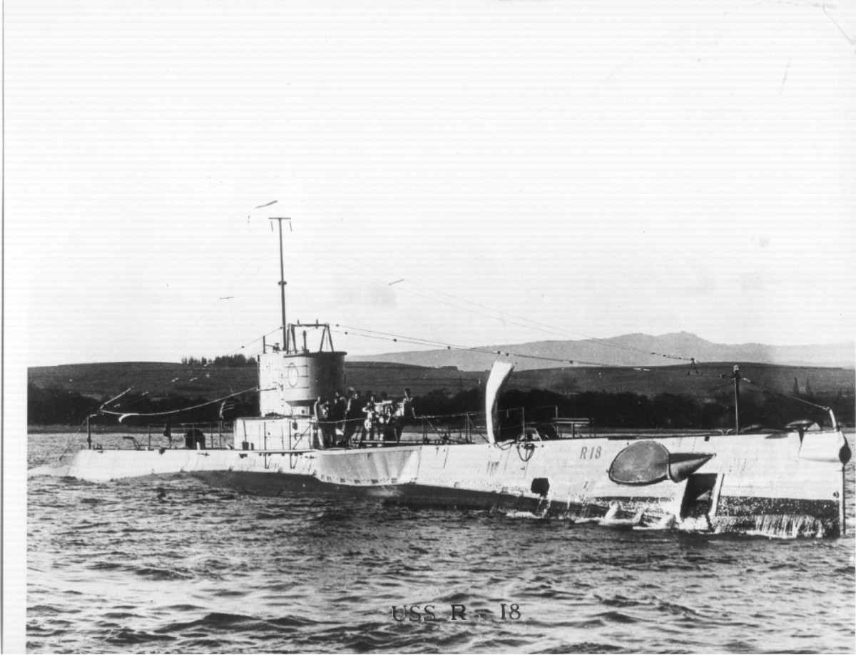 United States Navy submarine